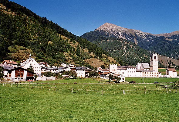 Village Müstair in Switzerland, in the right side the Benedictine monastery included in the UNESCO world heritage list